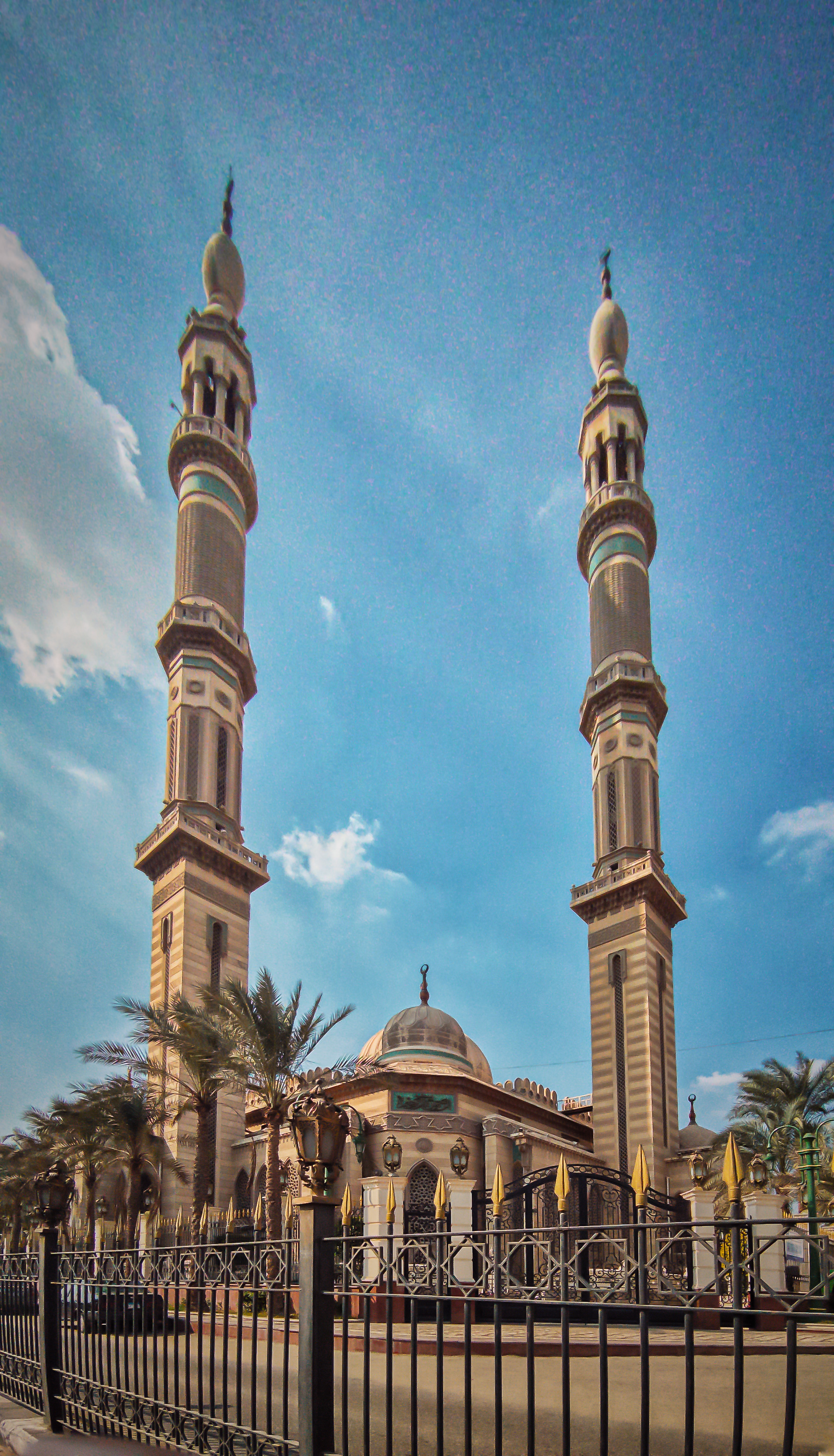 Al-Rahman Al-Raheim Mosque in Cairo, Egypt